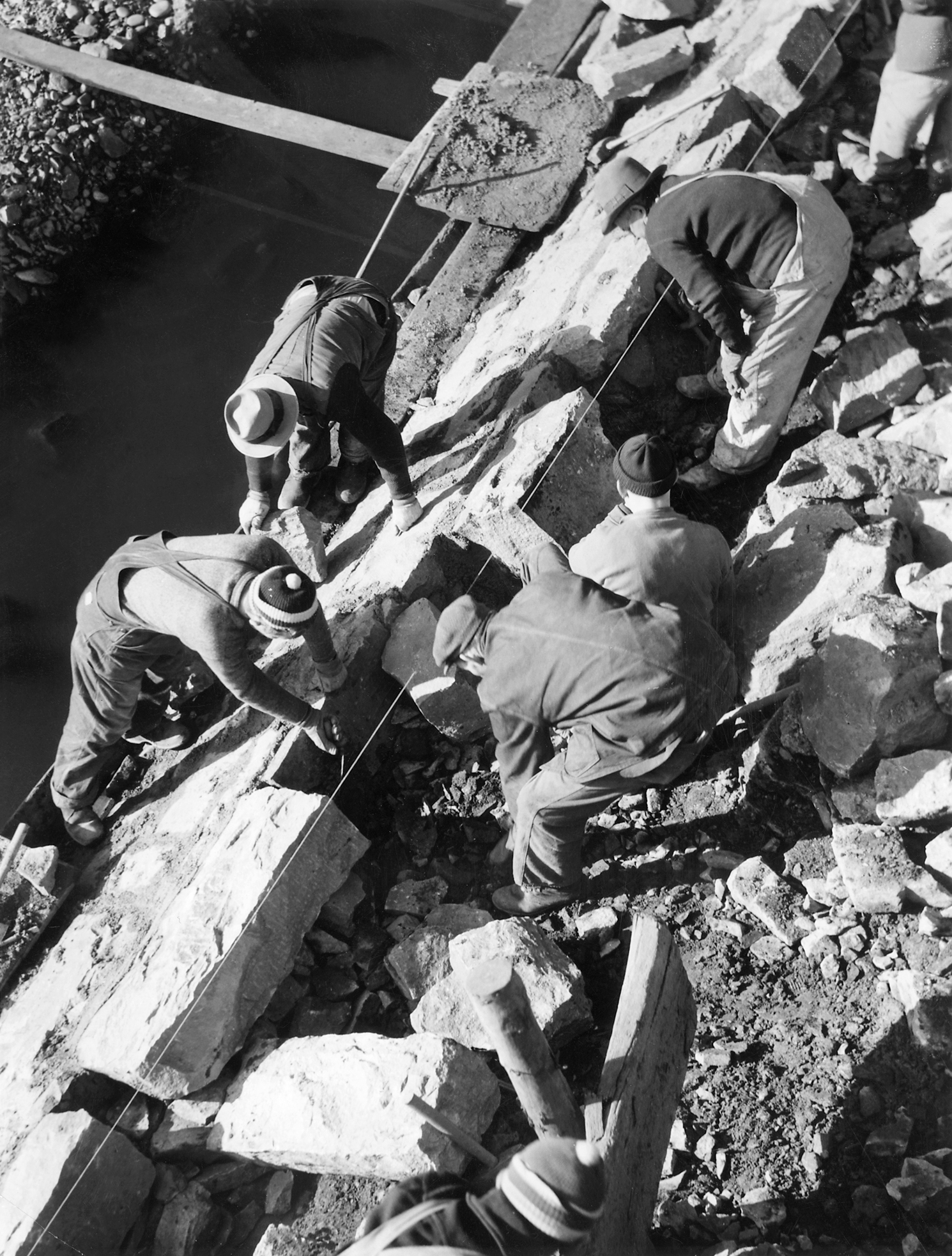 Photograph of WPA road development ARC Identifier: 195911